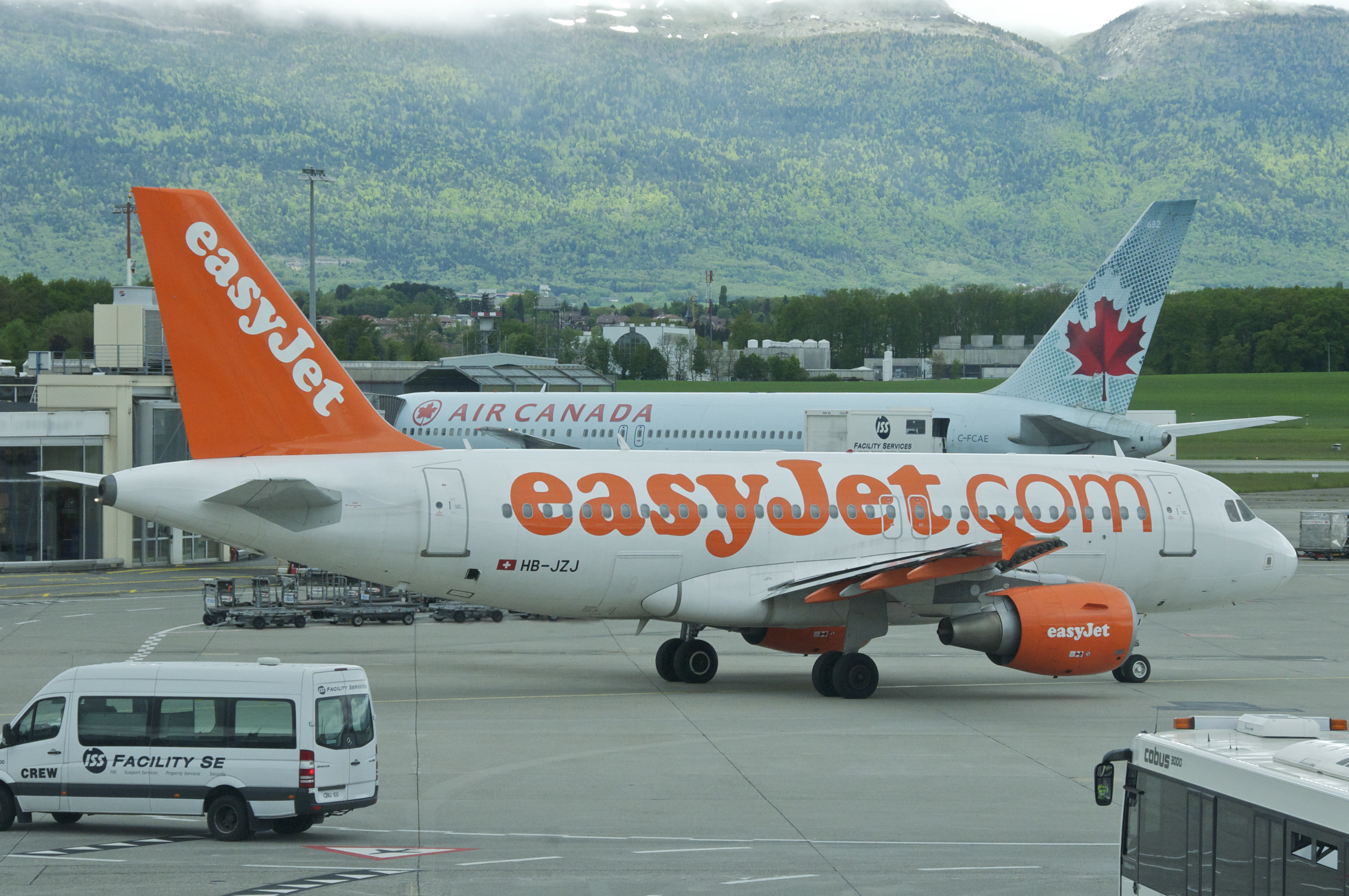 EasyJet Switzerland Airbus A319-111; HB-JZJ@GVA;10.05.2013/706am